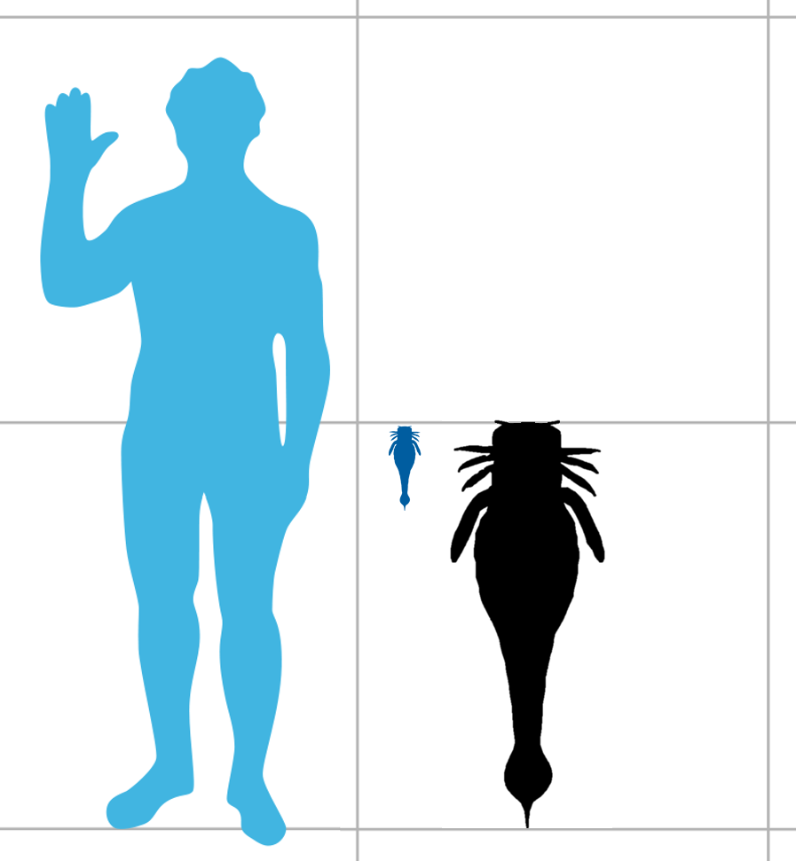 Size comparison of a human and two species of Slimonia. Used for the background and human silhouette and for the silhouette of Slimonia. The black species is S. acuminata and the blue one is S. dubia.